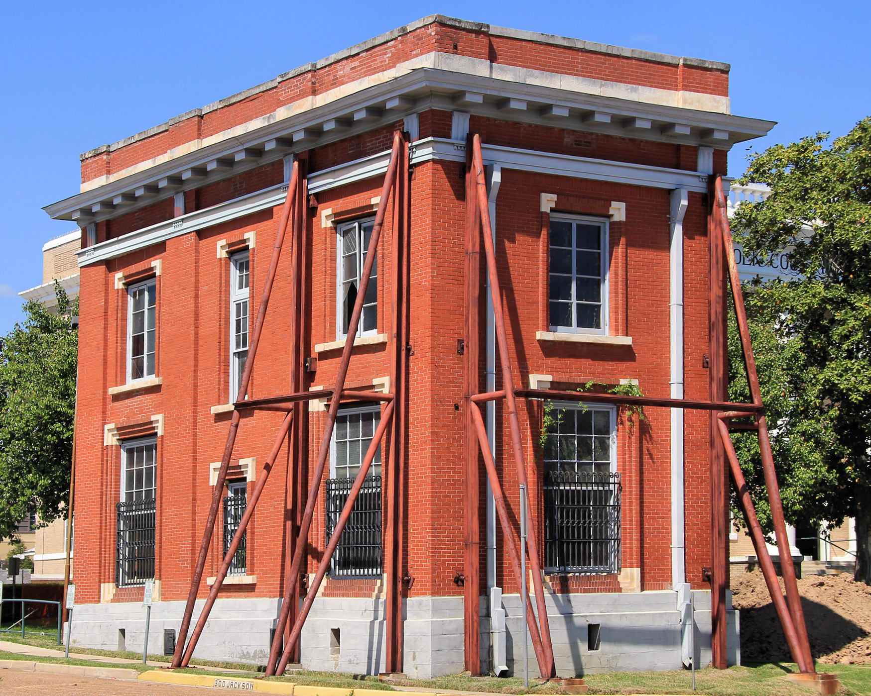 The 1905 Polk County Courthouse Annex in Livingston, Texas, United States. The Polk County Courthouse and the 1905 Annex were listed on the National Register of Historic Places on February 2, 2001.